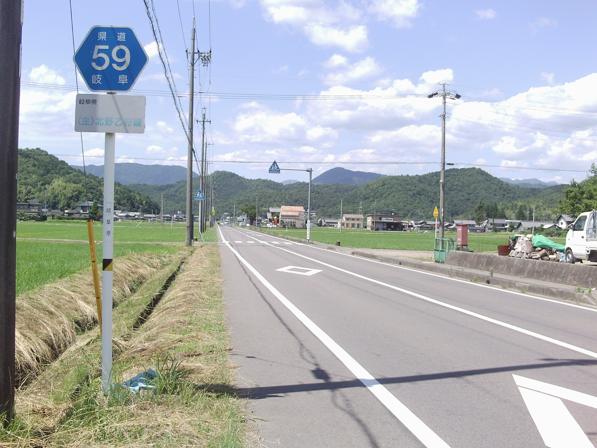 Gifu prefectural road No.59 in Kitanonishi, Gifu, Gifu.